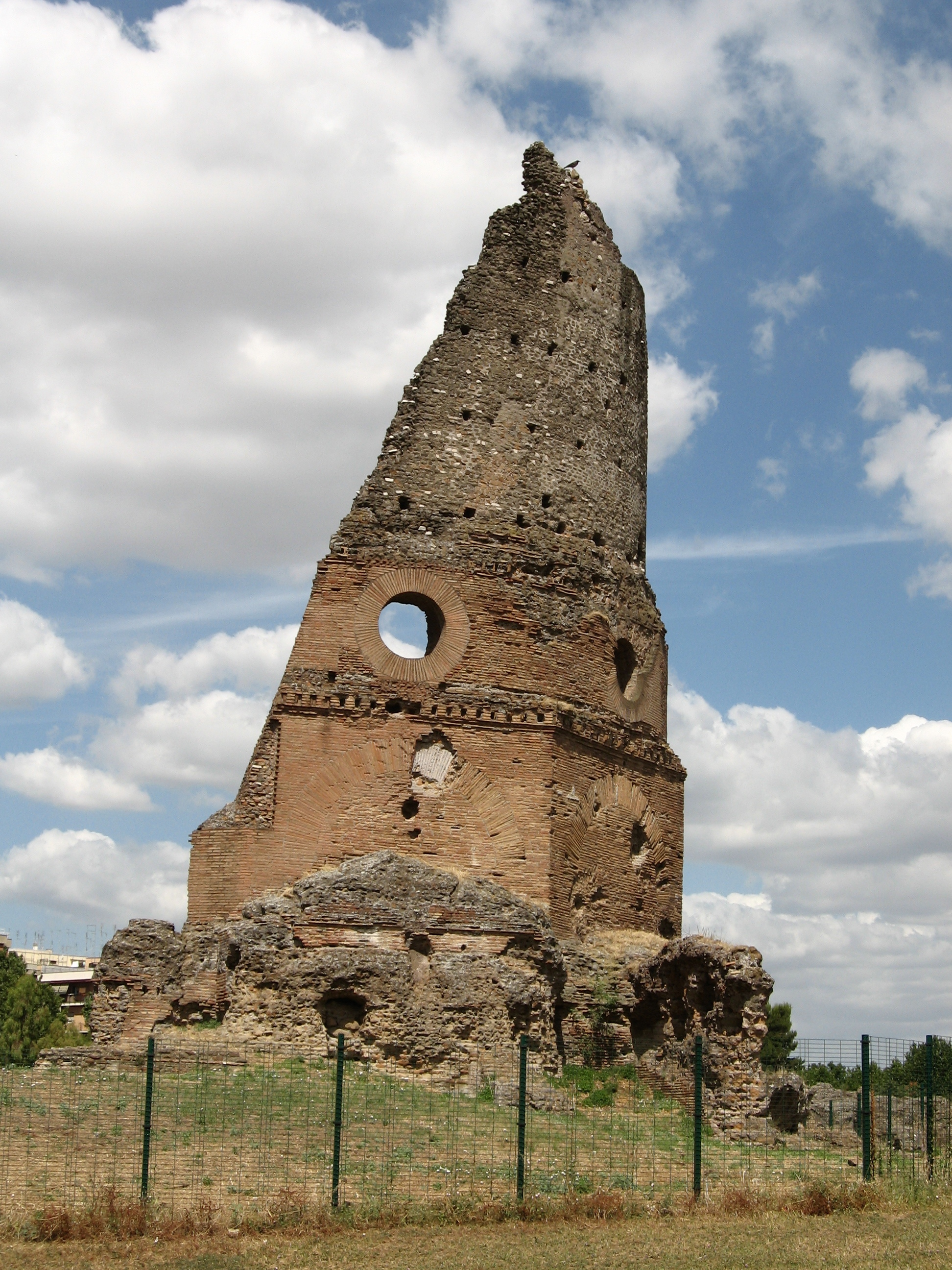 The "Torrione di via Prenestina", in the park of Villa Gordiani, Rome.